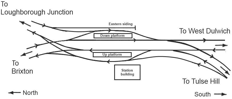 The layout of the tracks through Herne Hill railway station, London. First Capital Connect services from central London approach from Loughborough Junction (top left) and depart to Tulse Hill (lower right). Southeastern services from central London approach from Brixton (lower left) and depart to West Dulwich (top right). FCC and Southeastern services cross in front of each other at both ends of the station (the land safeguarded for future grade separation of the lines is marked). A siding used by FCC at the eastern side of the station (i.e. the top of the image) is also marked.